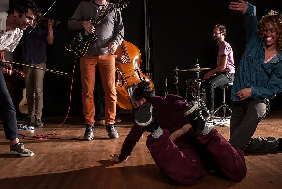 Live Performance Satellite Gallery